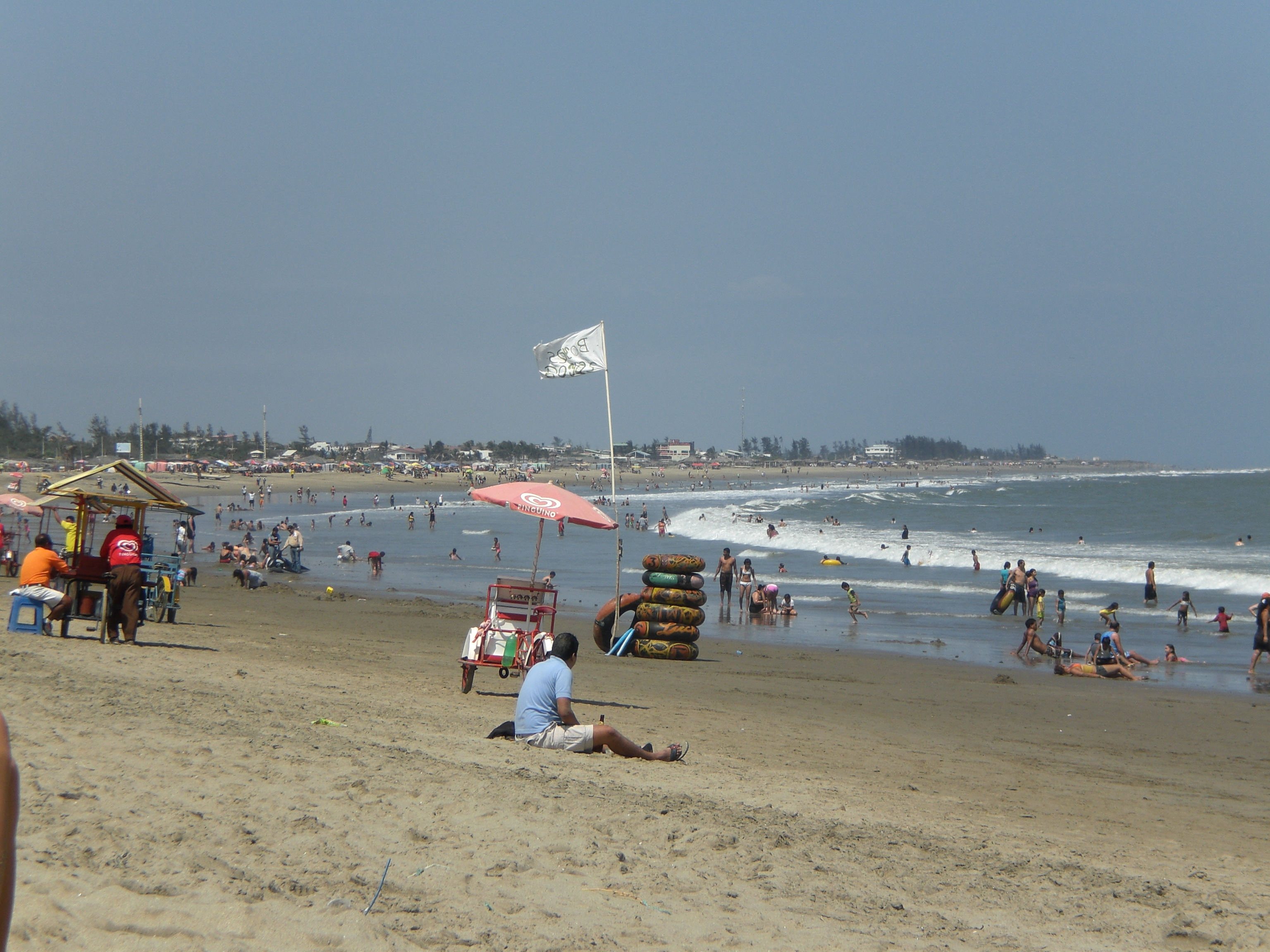 alternate view of the beach at Playas, Ecuador